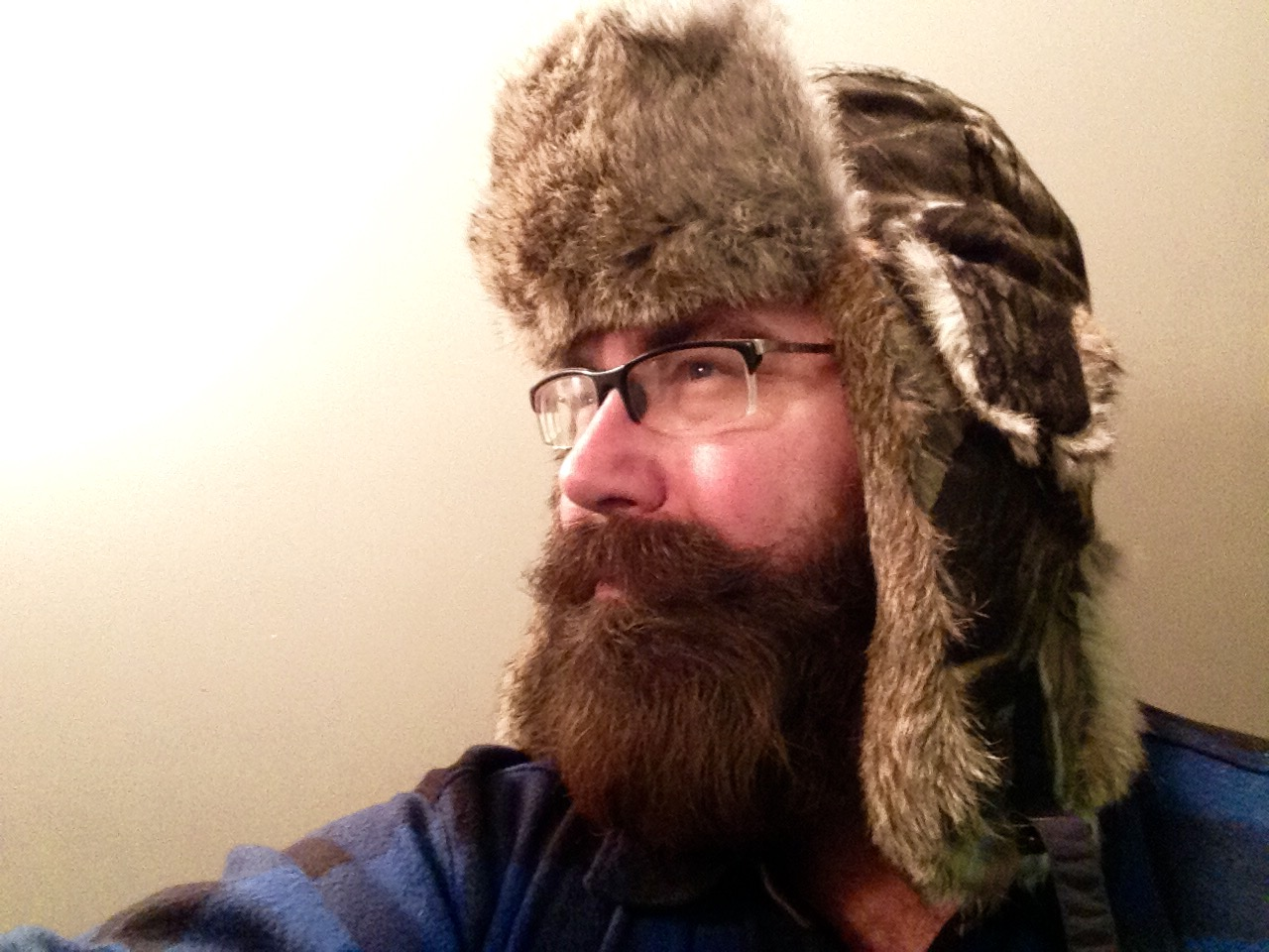 Headshot of a lumbersexual